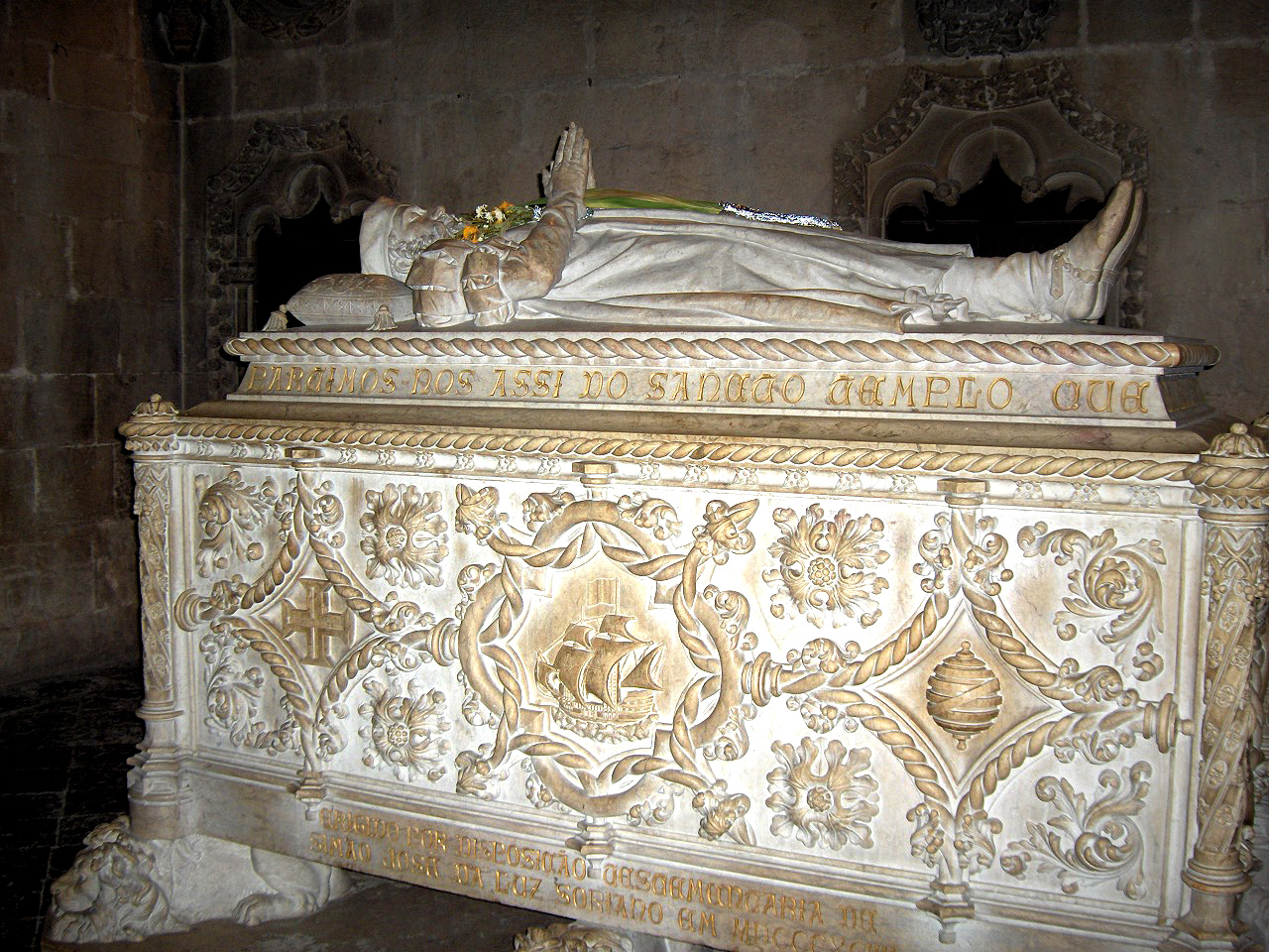 Tomb of Vasco da Gama in the church of the Jerónimos Monastery, Belém, Portugal